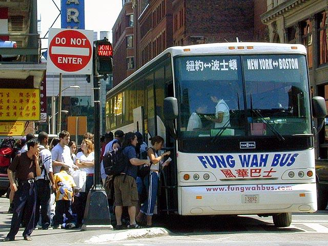 The Fung Wah bus.